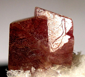 Spinel Locality: Mogok, Pyin Oo Lwin District, Mandalay Division, Burma (Myanmar) (Locality at ) Size: thumbnail, 1 X .8 X .8 cm SPINEL (twinned) Opaque, twinned .6 cm octahedrons with fair color.